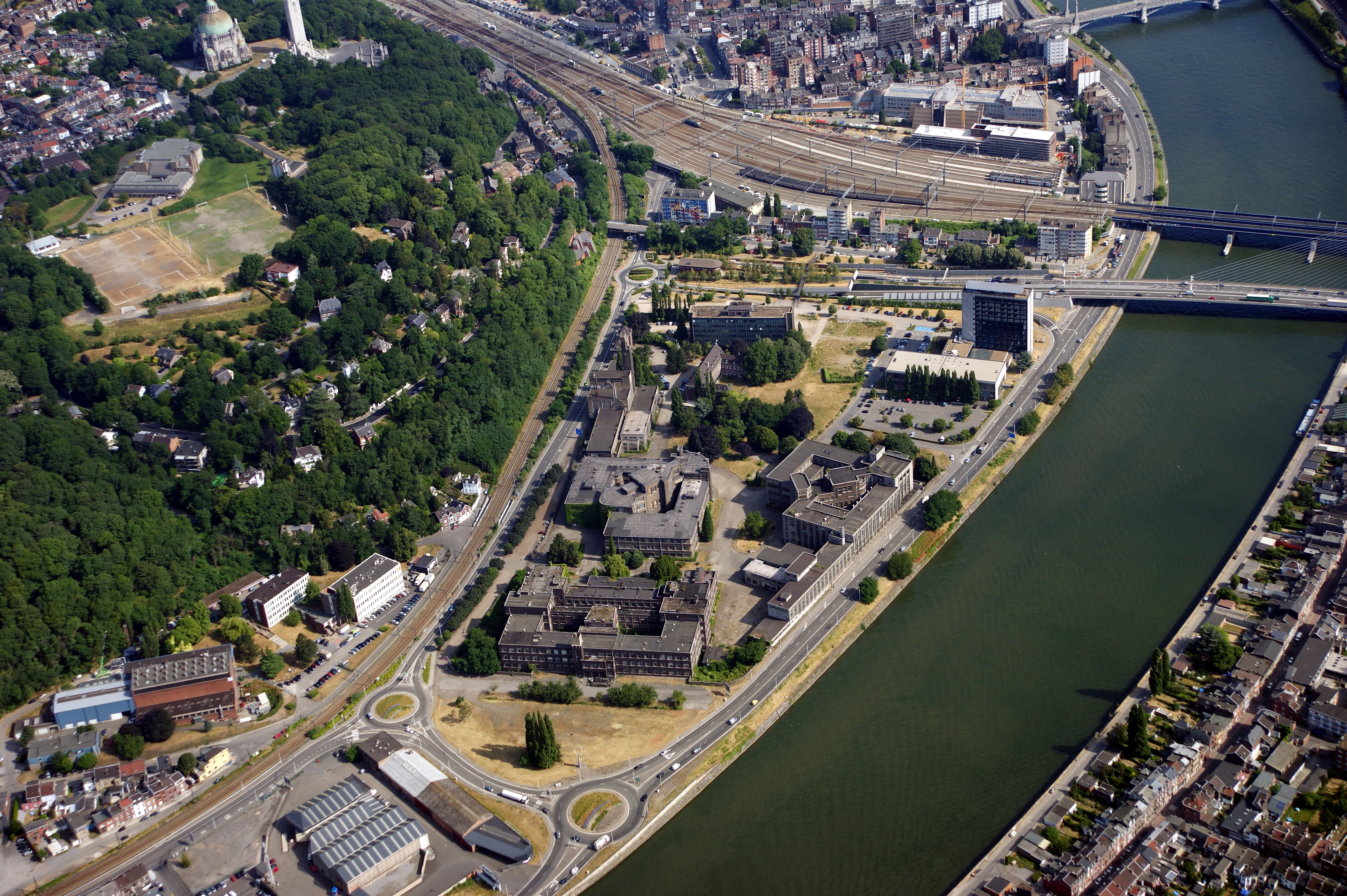 View of the Val-Benoît site, in Liège, Belgium